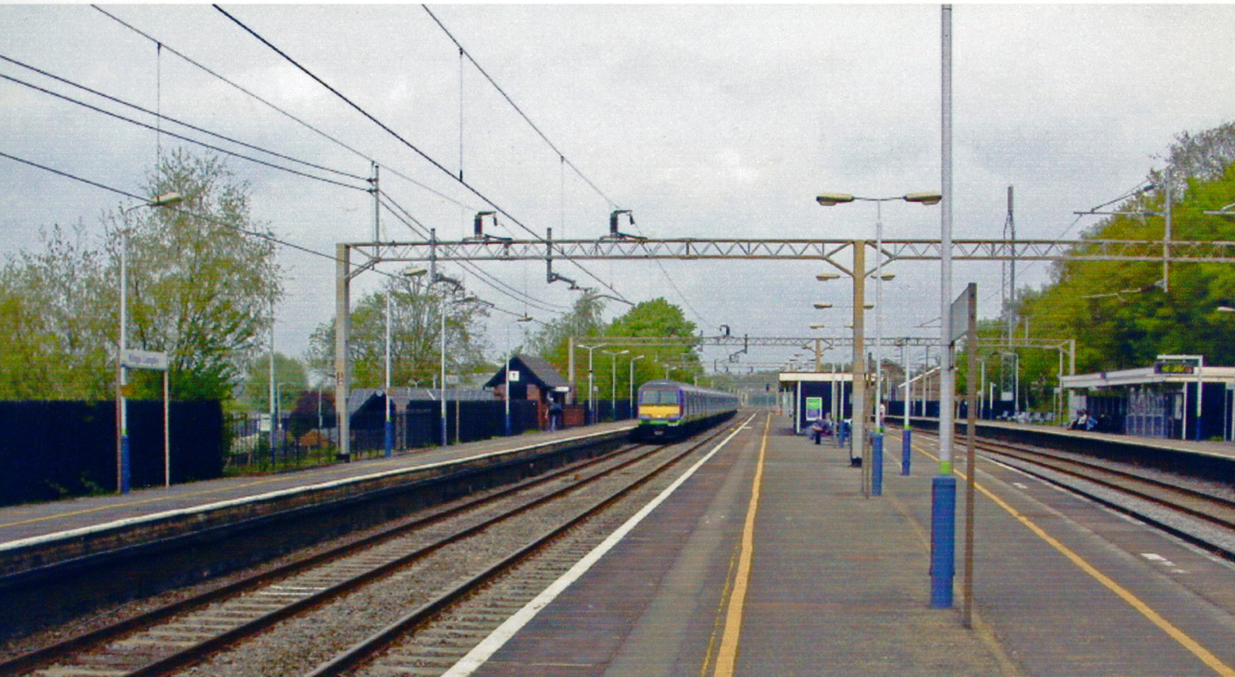 King's Langley station, 2004View northward on the WCML, from the Up Fast/Down Slow platform towards Bletchley, Rugby, Birmingham, Crewe etc., electrified 1965-67. (Cf. TL0801 : Kings Langley railway station). '& Abbot's Langley' was added until 6/5/74.